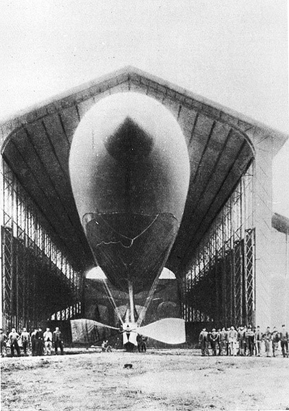 La France airship. 1885 photograph. 2001 National Air and Space Museum, Smithsonian Institution